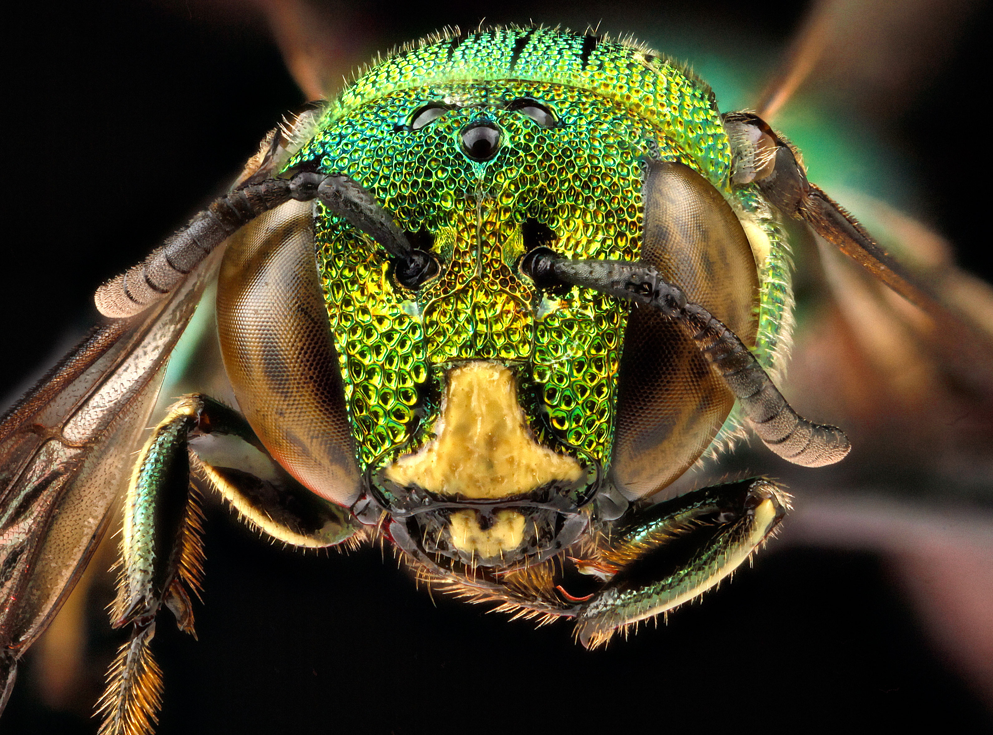 Ceratina smaragdula, male, and introduced bee, Hawaii, Oahu, March 2012